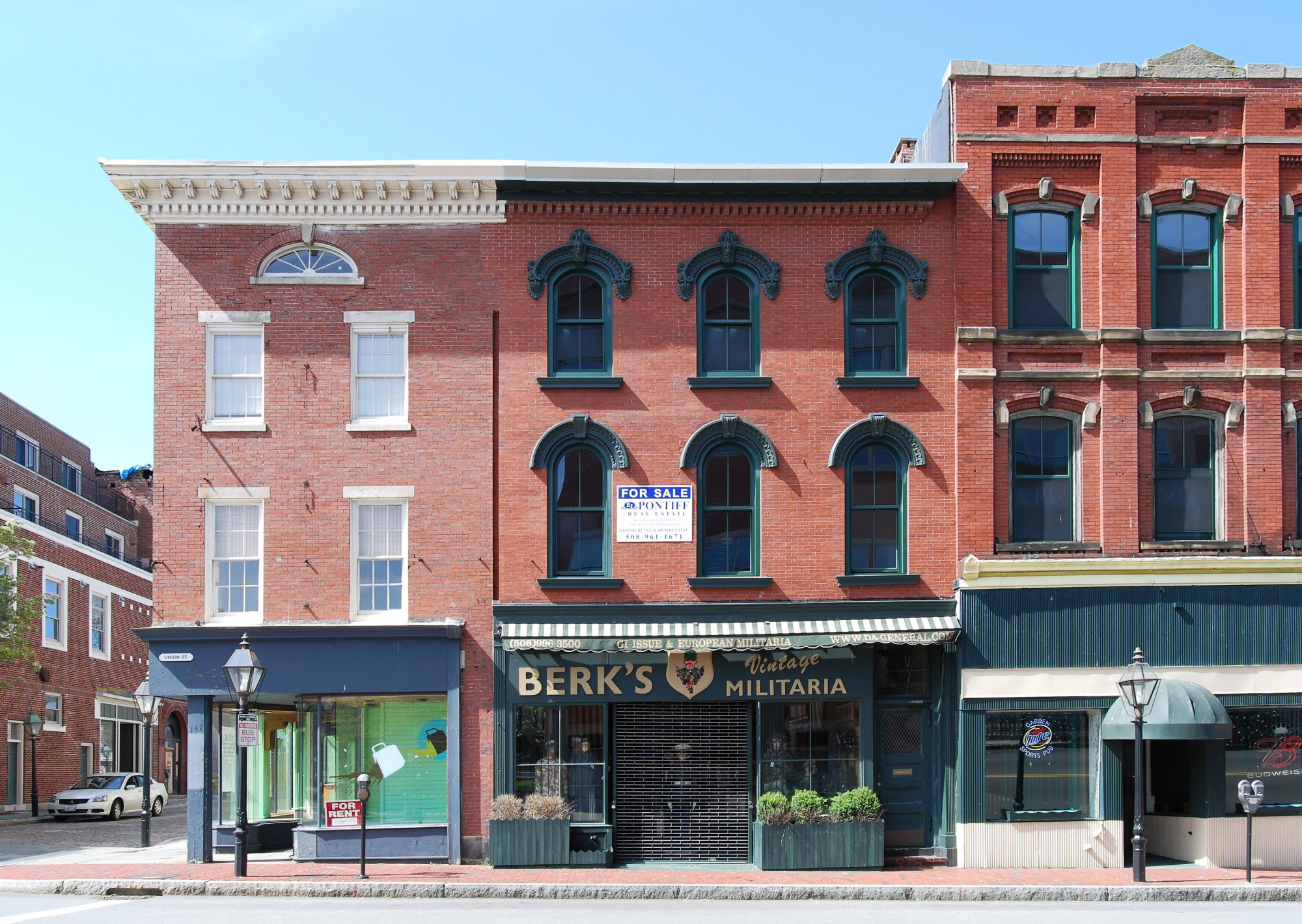 Union Street, Downtown New Bedford, Massachusetts